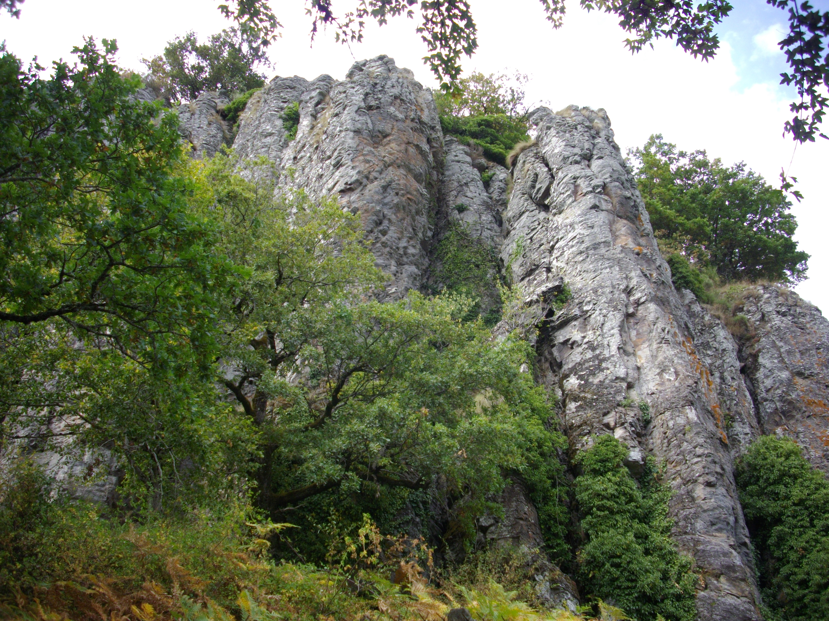 Geological formation of phonolites, known as Orgues de Bort in Bort-les-Orgues (Corrèze, France)